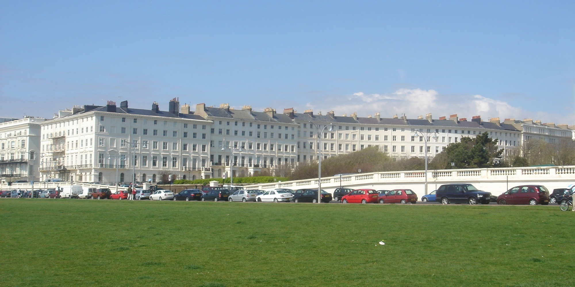 20–38 Adelaide Crescent, Hove, City of Brighton and Hove, England. These houses form the west side of Adelaide Crescent. Listed at Grade II* by English Heritage (NHLE Code 1187537)